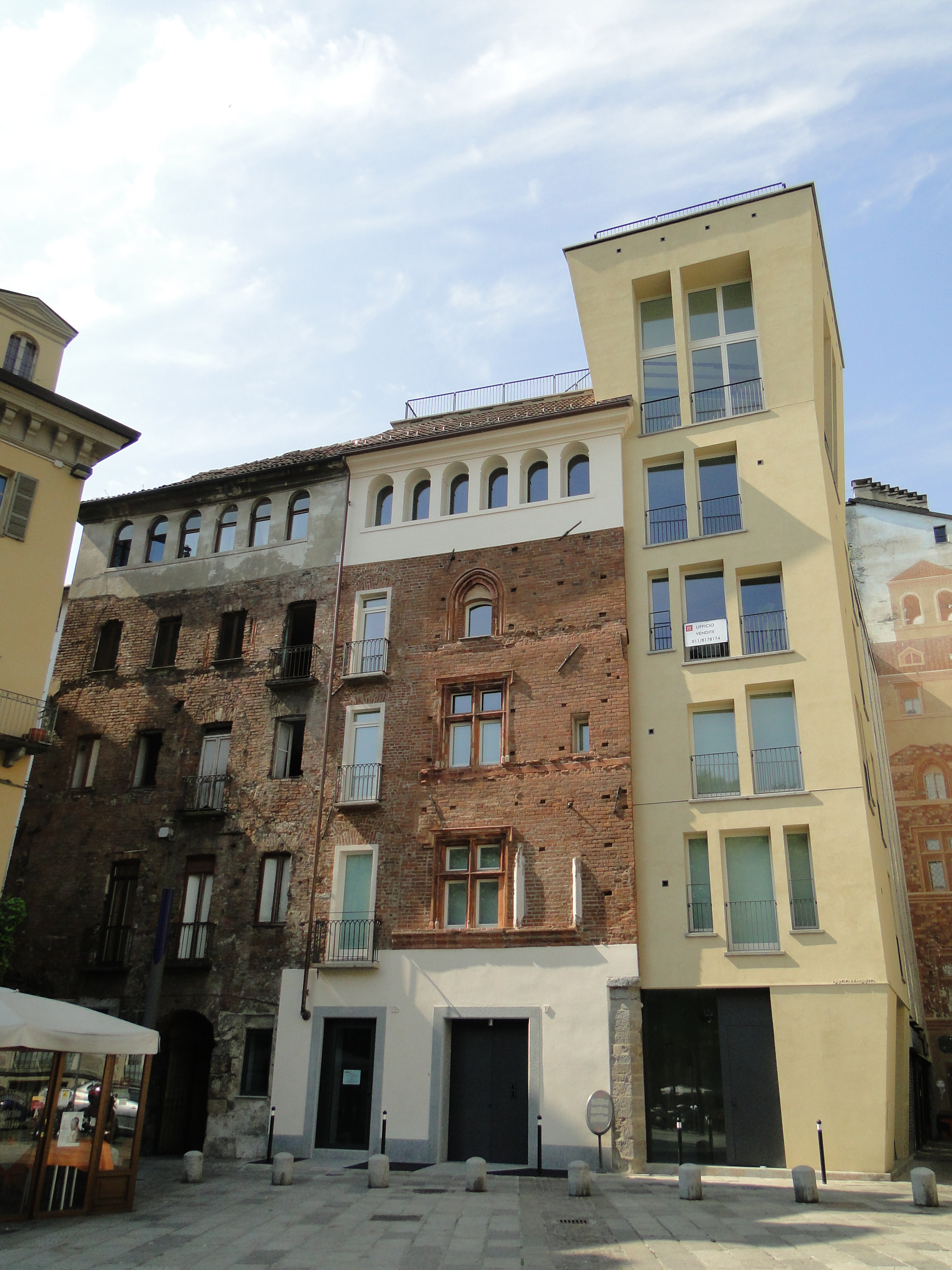 Medieval place of Senate in Turin, with the modern building aside